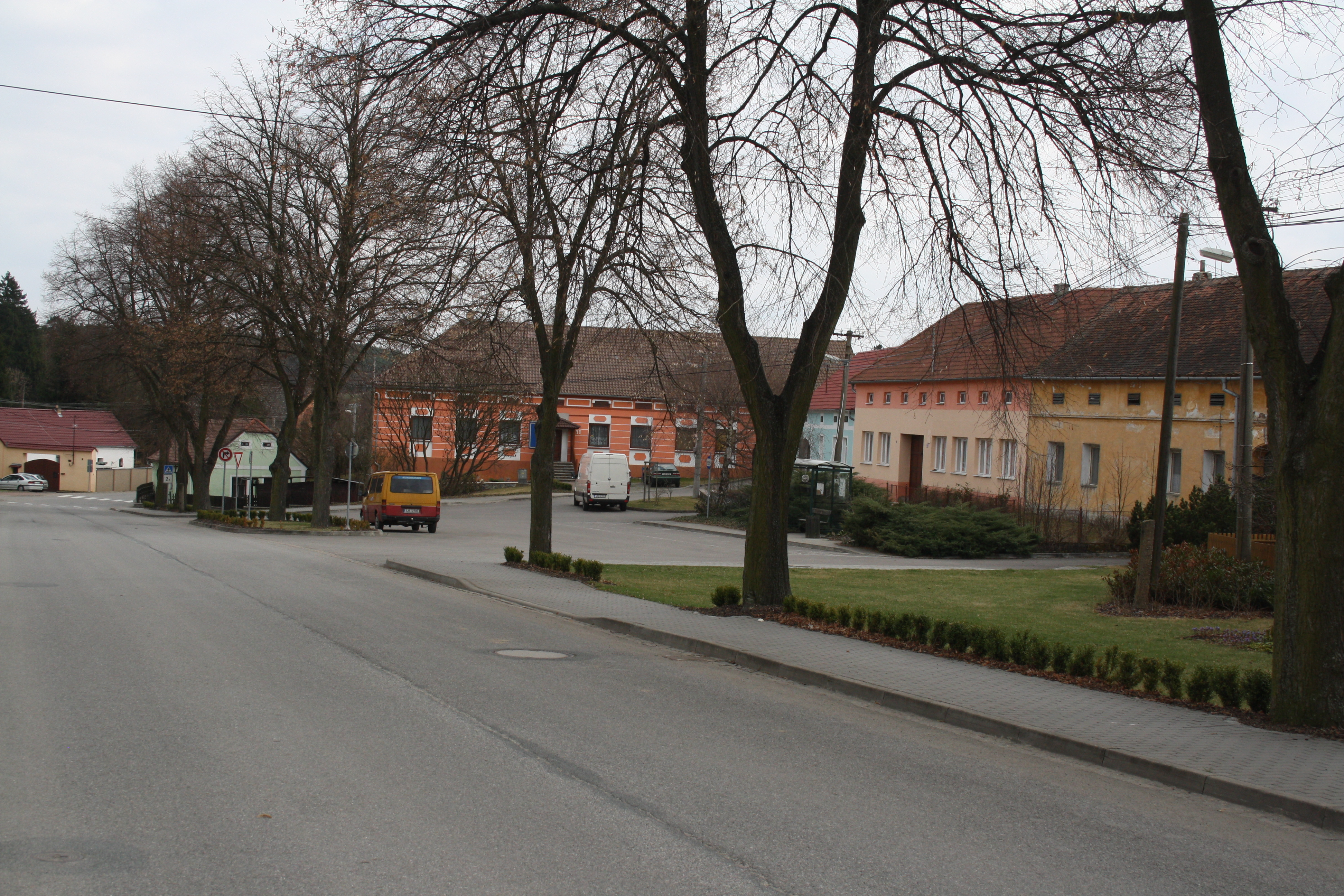 Village square in Petrůvky, Třebíč District.